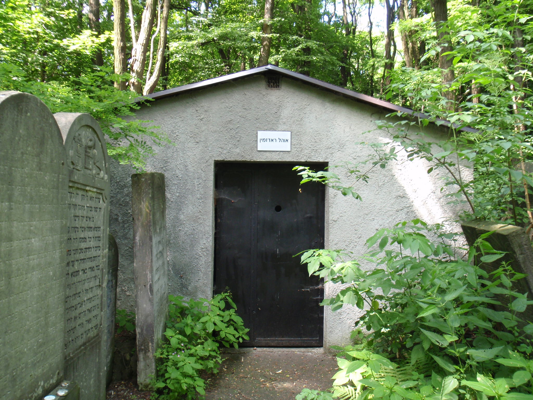 Ohel of Radzymin tzadiks